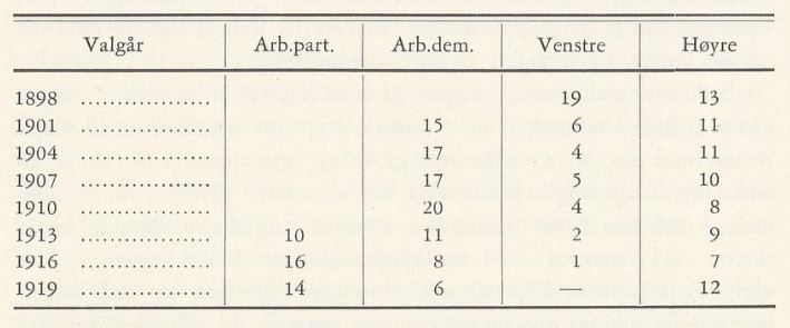 Results from municipality elections in Elverum from 1898 unto 1919